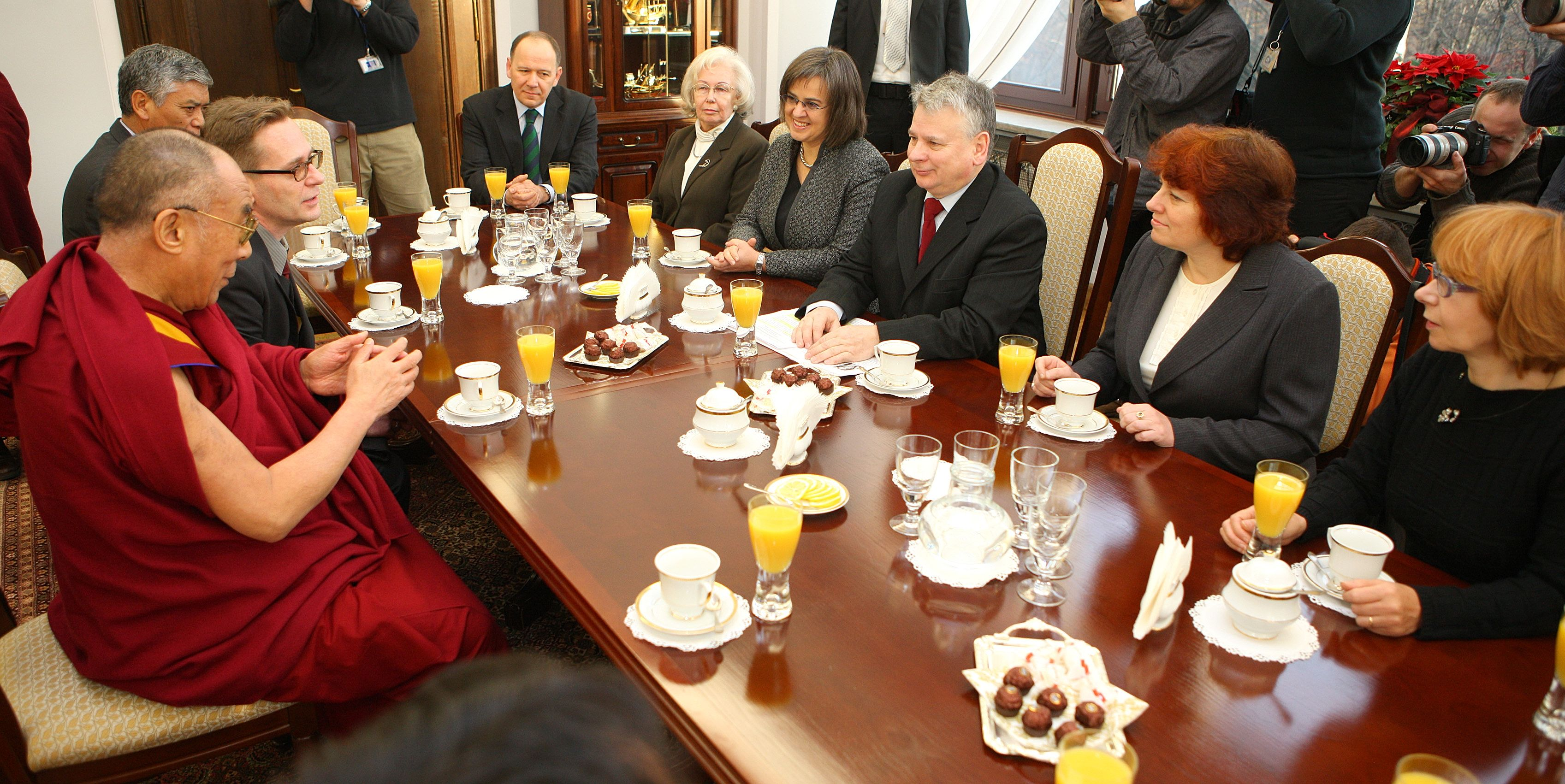 14th Dalai Lama Tenzin Gyatso in the Polish Senate